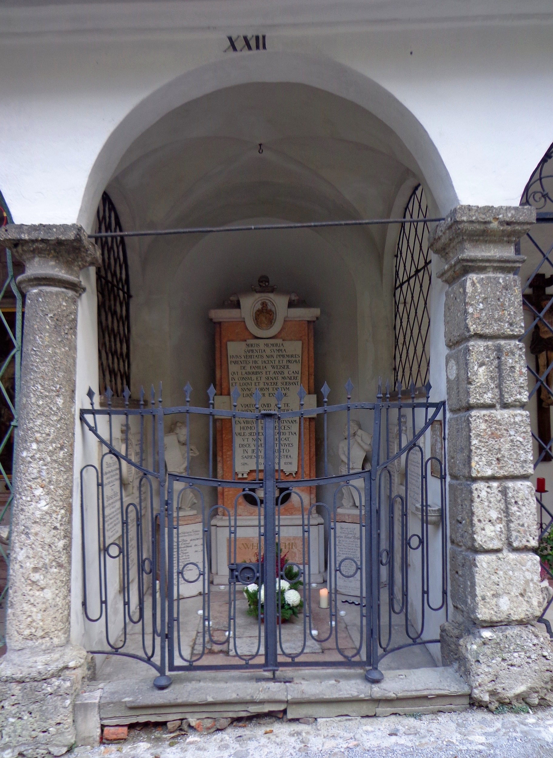 Crypt 22 (Petersfriedhof Salzburg) Weiser - from outside